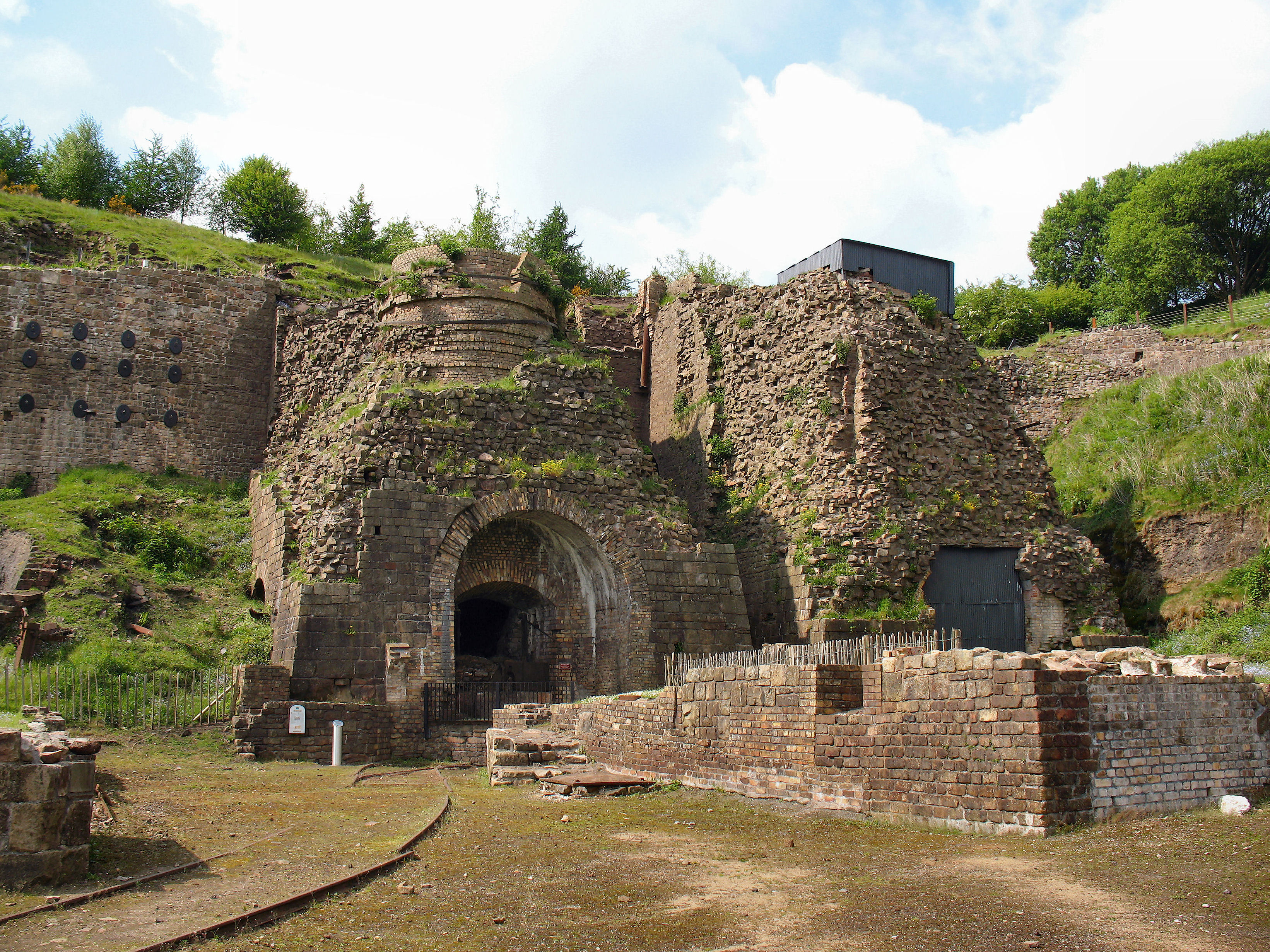 Two furnaces at Blaenafon Ironworks, Wales.